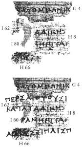 Several papyrus fragments regrouped, shown in the bottom left corner. (10) μὴ ἑὸμ μέγεθος ὑπερ]βατὸμ ποῆι κ[ Π]έ̣ρ̣σ̣α̣ι̣ θύο̣υ̣[σι(ν) κ]ατ̣ὰ̣ τ̣ὰ Δίκης [μέτρα (?) γὰ]ρ̣ [ἀ]μήνιτα κ[ '... Persian people make sacrifices ... so that (the sun) does not make surmountable its own size ... according to Dike’s rules ... not angry indeed ...'